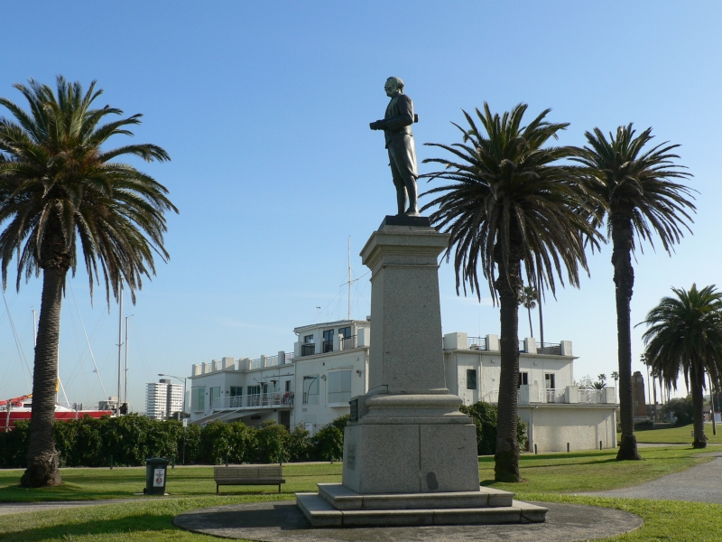 Captain Cook Statue and Royal Yacht Squadron Buildings